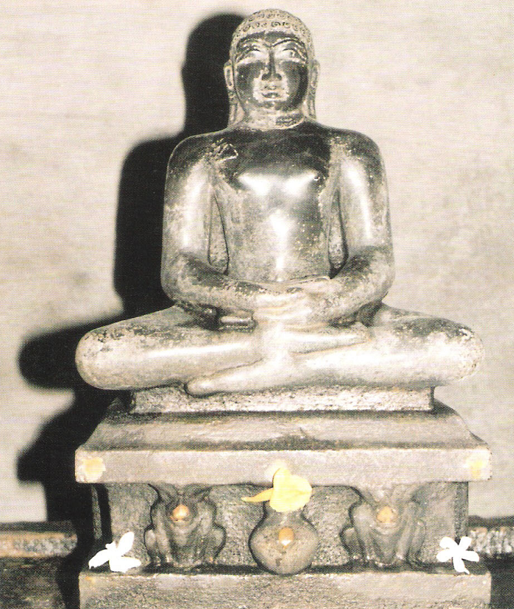 Bhagawan Mallinathar 19th jain thirtankara